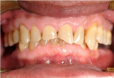 Frontal view of severe tooth erosion caused by endogenous acid in a patient with GERD